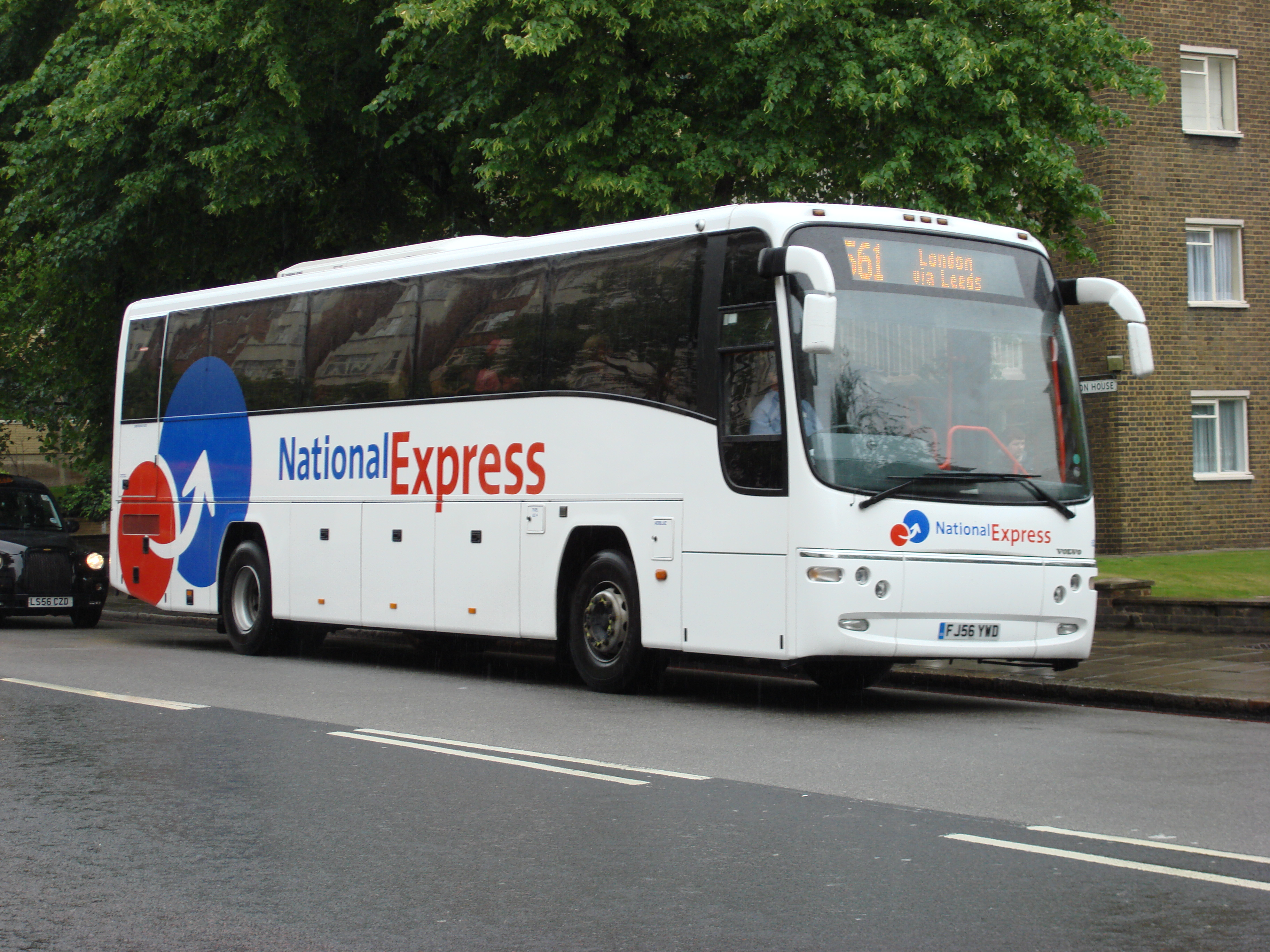 National Express route 561, London - Leeds - Bradford - Skipton